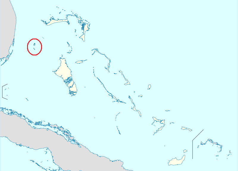 Location map of the Bahamas Equirectangular projection, N/S stretching 105 %. Geographic limits of the map: * N: 27.5° N * S: 20.7° N * W: 80.7° W * E: 70.8° W Map of the Bahama Islands.